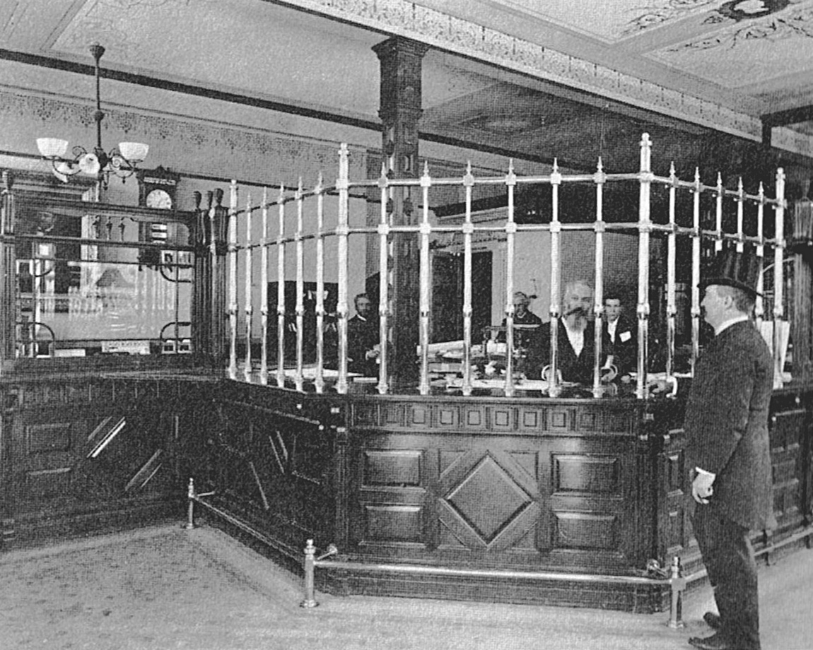 Interior of the Bank of Pasadena, California circa 1895